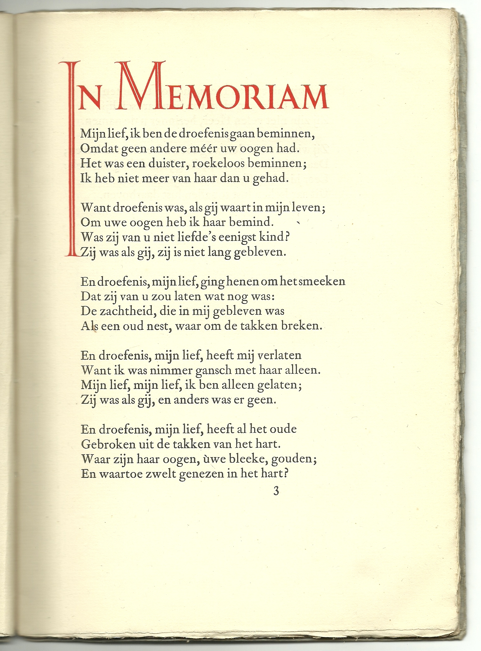 Example use of initials by Jan van Krimpen in the Palladium-series (1920-1927). Poem In Memoriam (1921) by J.W.F. Werumeus Buning (1891-1958)